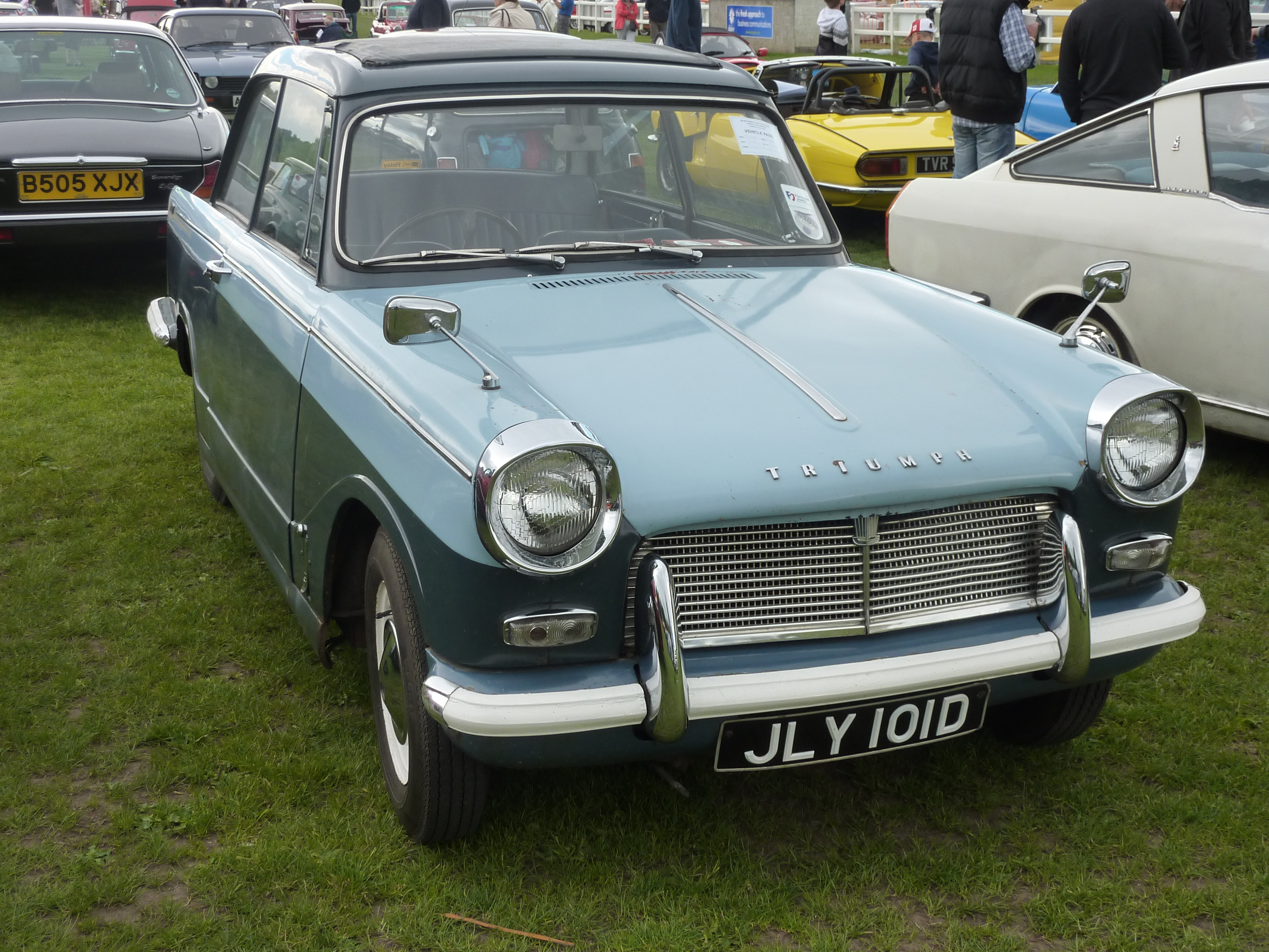 NIce.